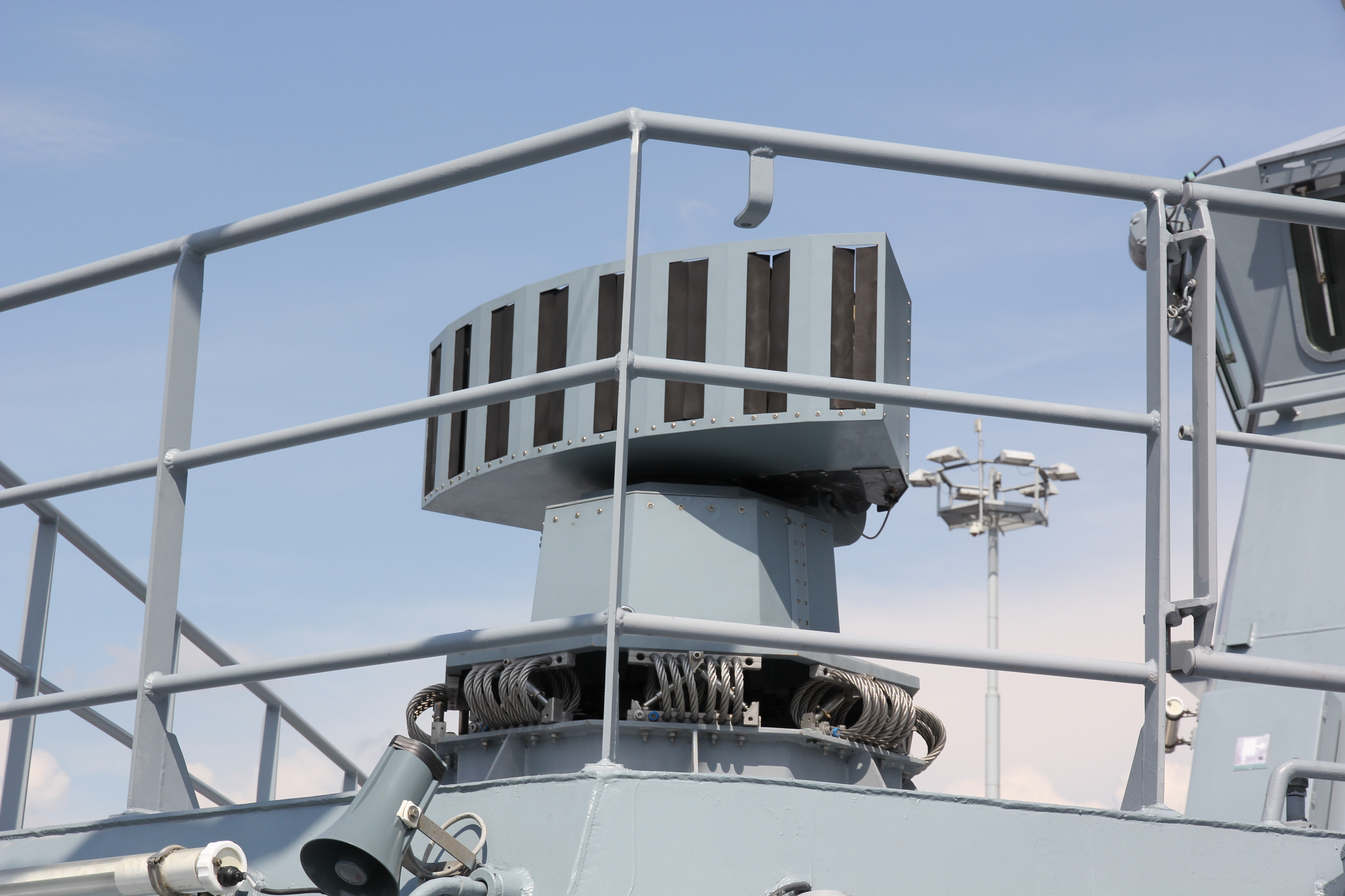 Finnish minelayer Uusimaa bow MASS decoy launcher. Photographed during Finnish Navy 2011 anniversary in Turku.